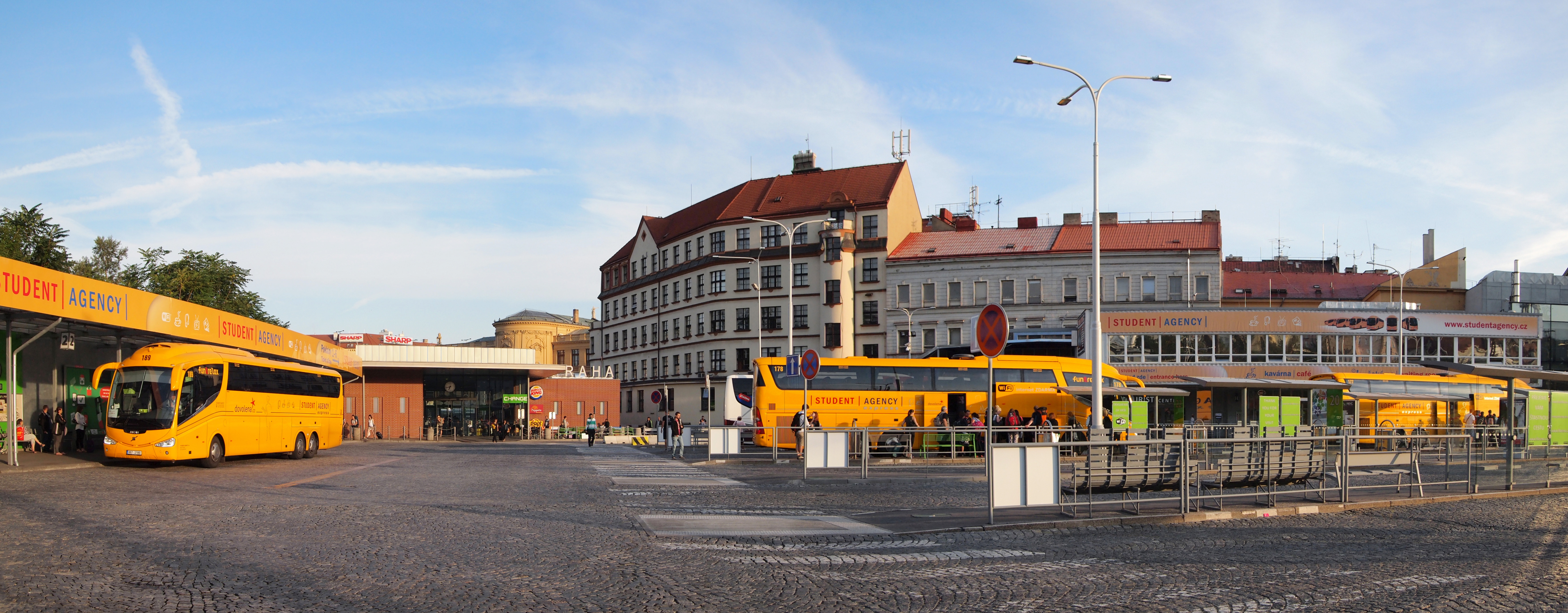 Main bus station ÚAN Florenc in Prague. This photograph was taken with an Olympus E-PL1